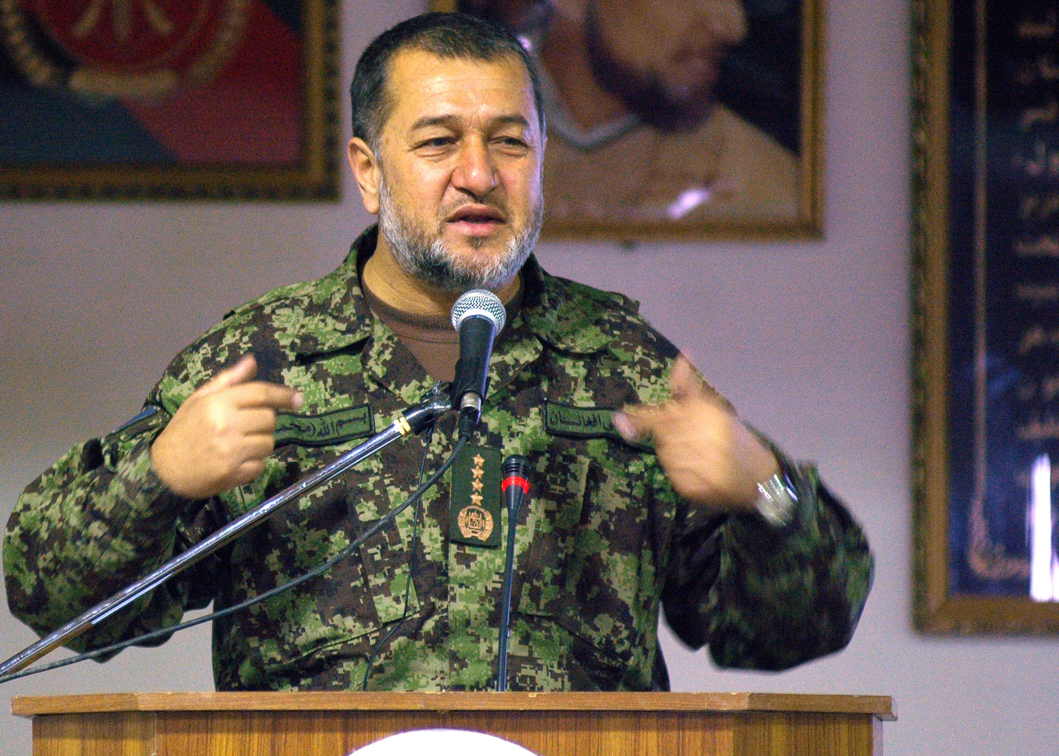 091207-N-3218H-039 (Kabul, Afghanistan) General Bismillah Khan Mohammadi, Afghan National Army Chief of Staff, addresses senior enlisted soldiers at the sixth semi-annual Sergeant Major conference in Kabul. More than one hundred senior enlisted ANA and coalition soldiers attended the seminar held at the Afghan National Army Air Corp auditorium, to share ideas and experiences beneficial to Afghanistan’s non-commissioned officer corps.(U.S. Navy photo by MC2 Christopher Hall/RELEASED)